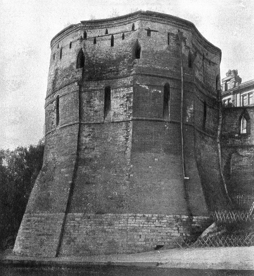 Mnogogrannaya Tower of the Kitai-Gorod wall (1535-1934) in Moscow